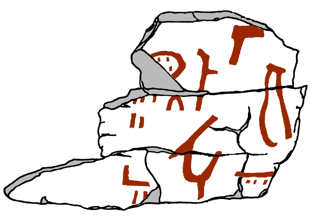 Redrawing of the incript on one of the corner stones of the Red Pyramid at Dahschur